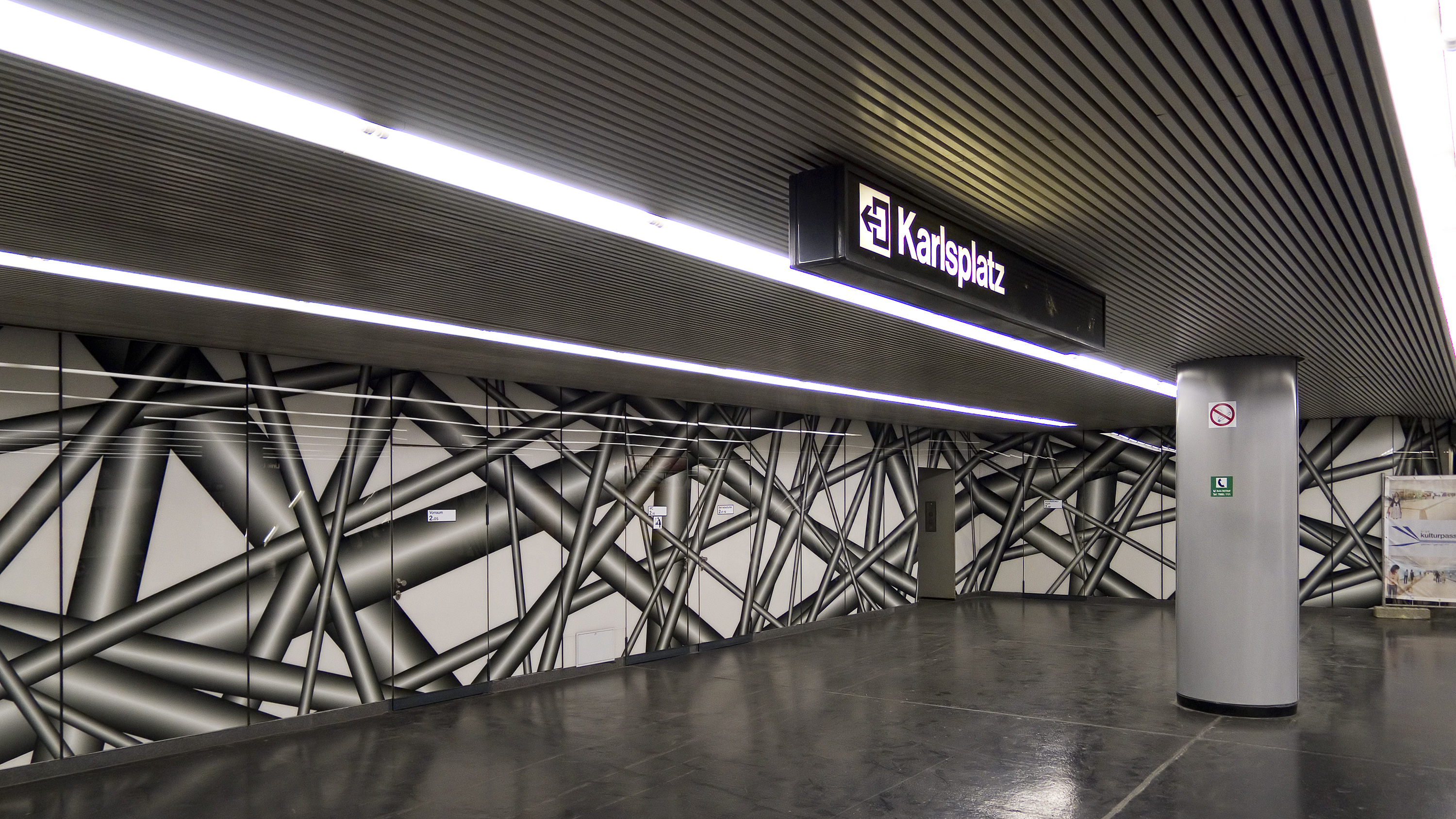 Underground station U-Bahn-Station Karlsplatz in Vienna